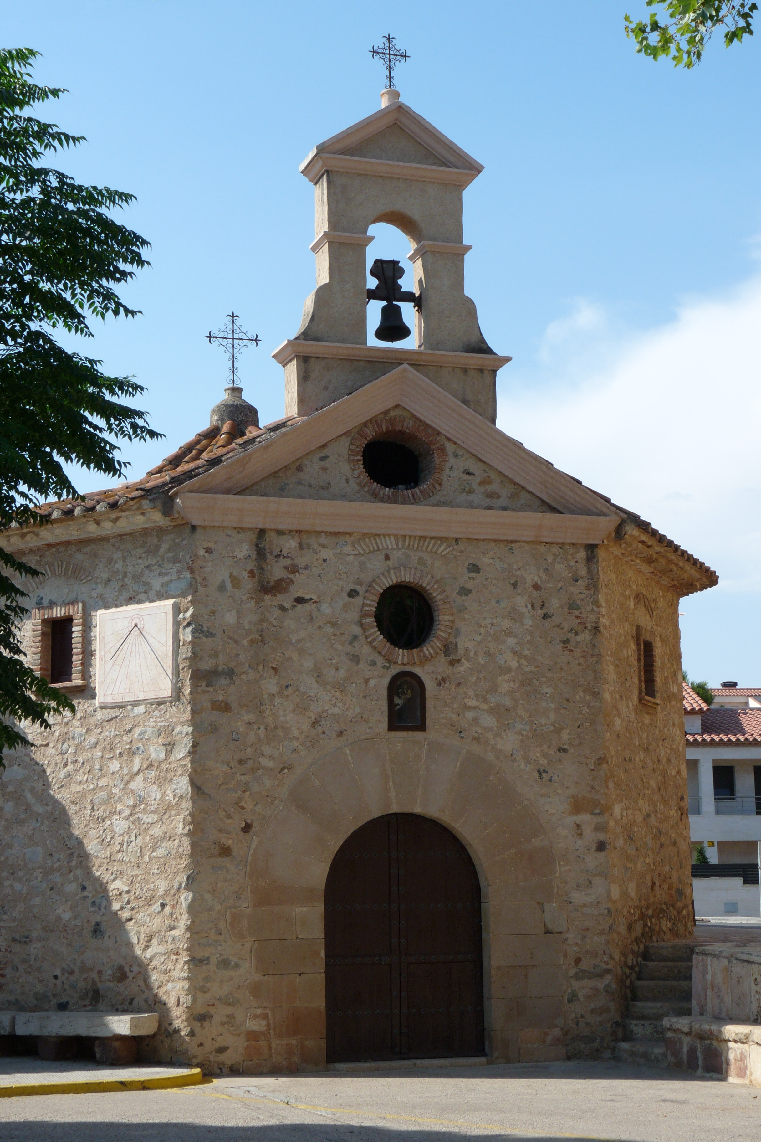 Sanctuary of Sant Antoni de Pàdua (1704), Montbrió del Camp.